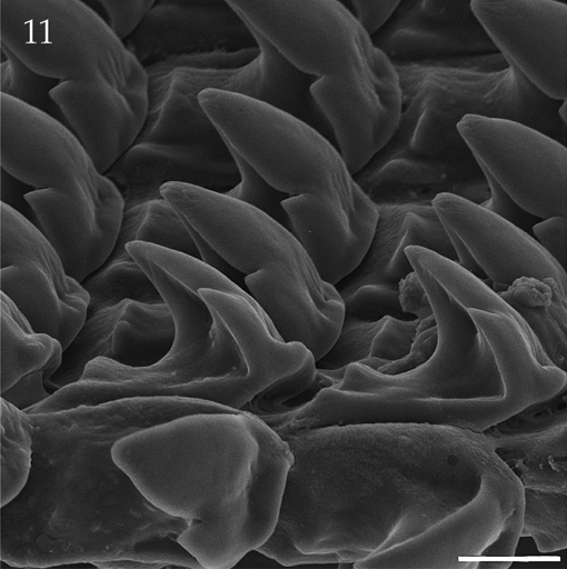 Radula of Oospira (Atractophaedusa) smithi: lateral teeth 3-7. Locality: Vietnam, Haiphong Province, Cat Ba Island, near entrance of the Trung Trang Cave, 6.iv.2001, 20°47.38'N. 106°59.87'E. Scale bar 10 µm.